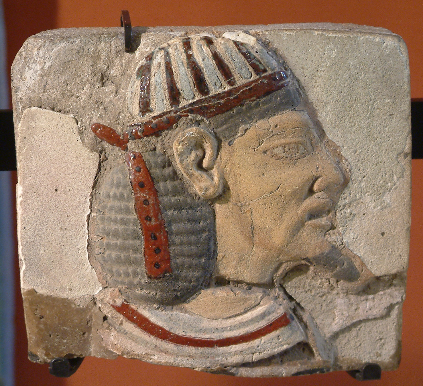 Head of an Asiatic prisoner. Earthenware, fragment from the palace of Tell el-Yahoudiyeh, in the Nile delta, reign of Rameses III (1184–1153 BC, 20th Dynasty).